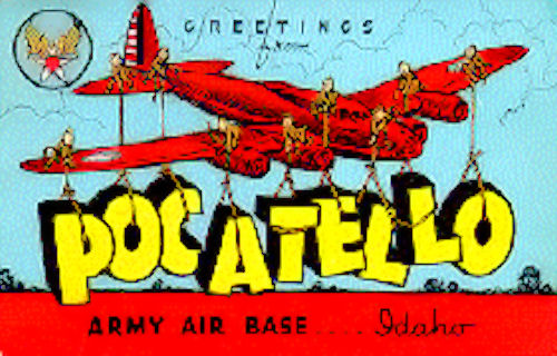 Pocatello Army Airfield - Postcard